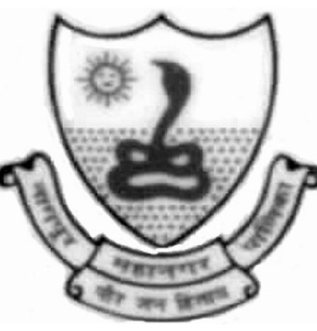 Seal of Nagpur Municipal Corporation.